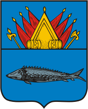 Narym (Tomsk oblast), coat of arms (1785)